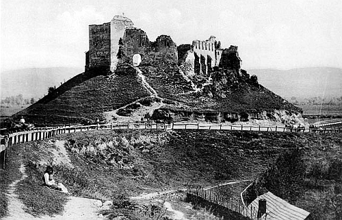 Feldioara